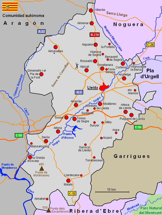 Map of the comarca Segrià, Catalonia, Spain